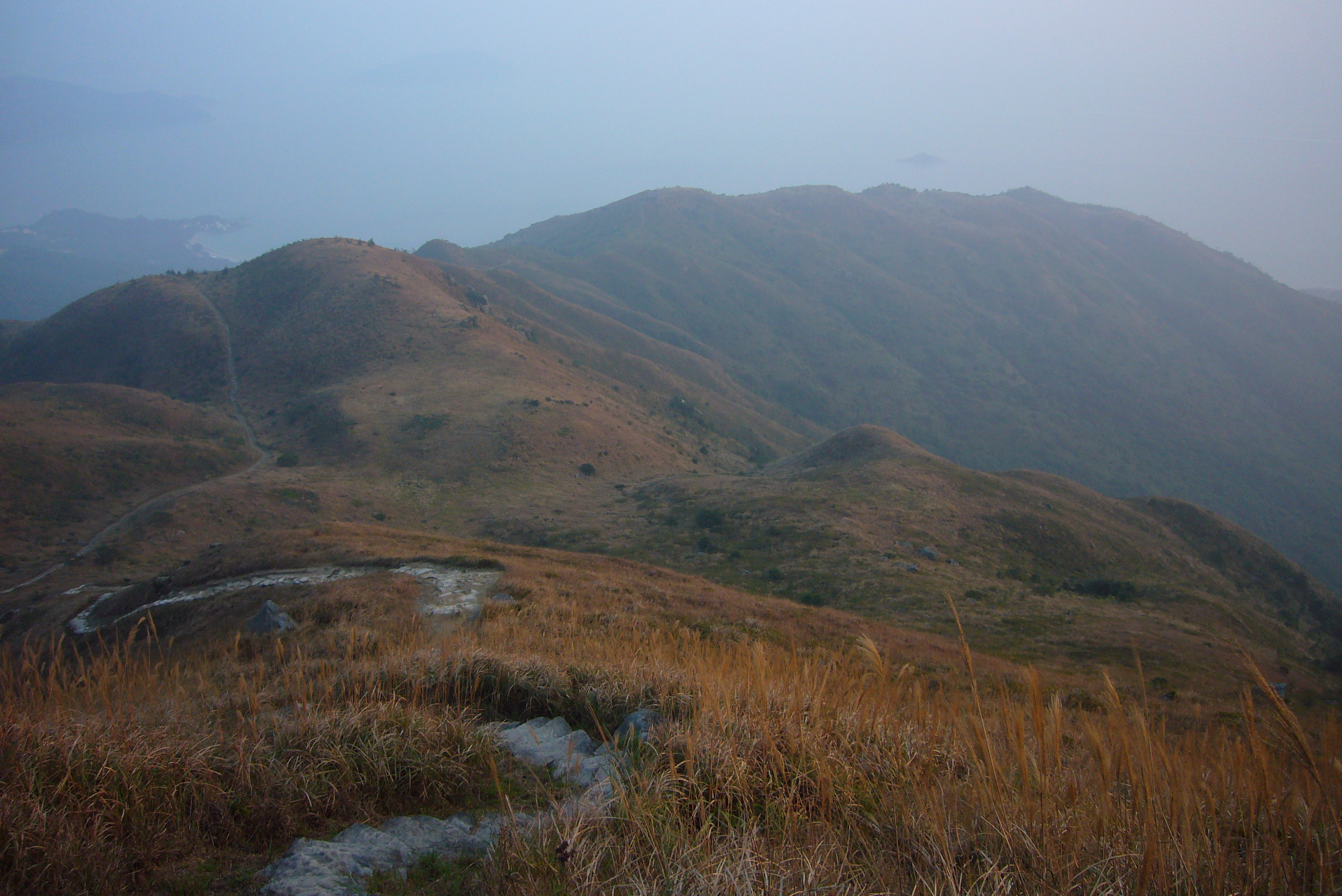 Lantau Peak Road